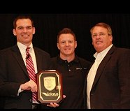 Award presented to Adam Edwards of Telarus by AireSpring's Ron McNab and Charles Lomond